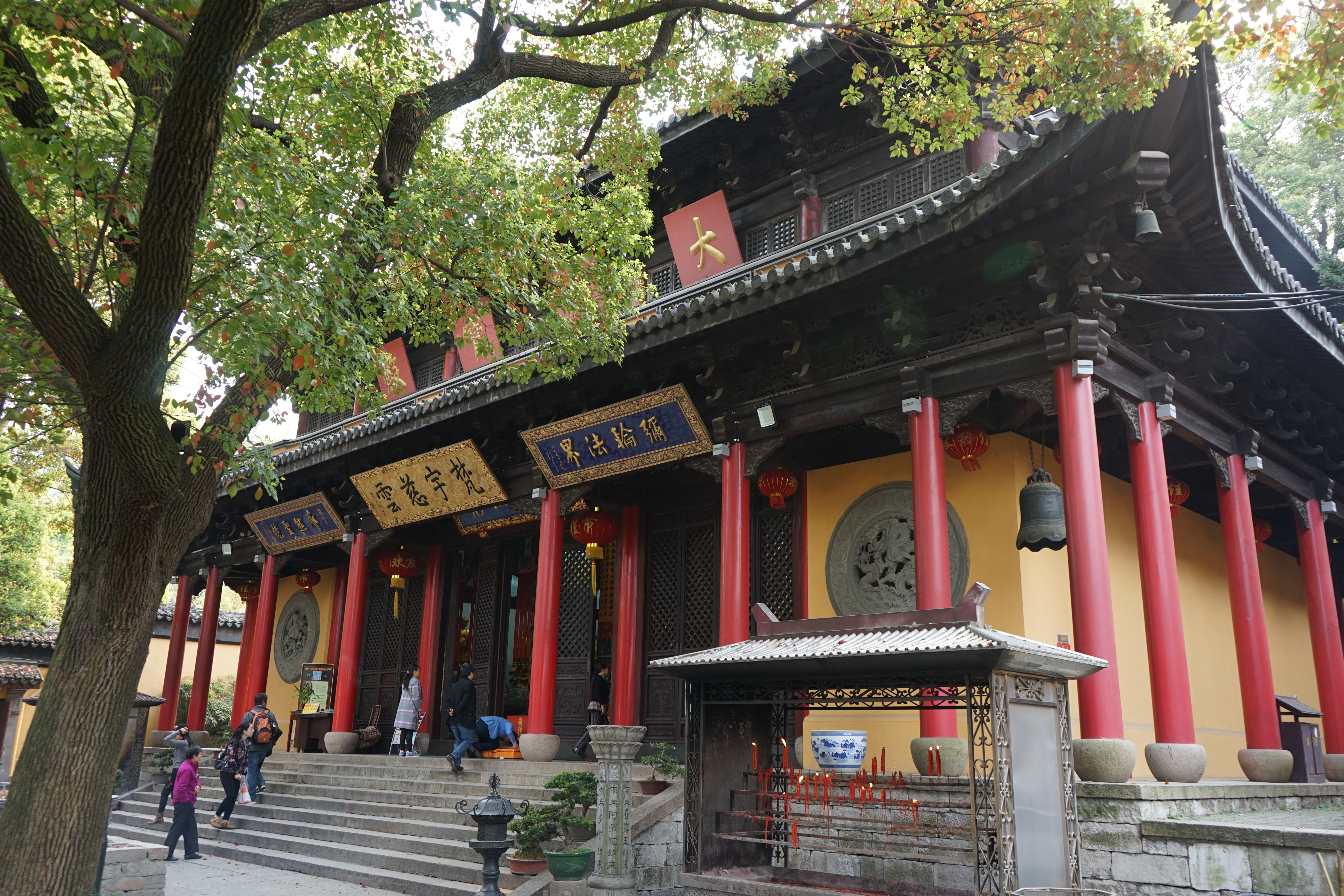 Grand Hall, Huishan Temple, Wuxi